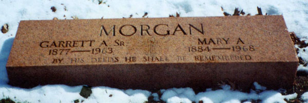 I took this photograph of the gravestone of Garrett Morgan in Cleveland, Ohio, in February of 2003. I hereby release all rights to this image.